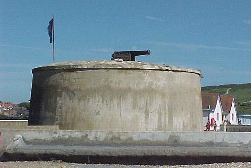 Martello Tower - Seaford, East Sussex by Mickie Collins, taken from Geograph free licence